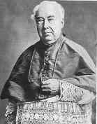 Bishop William O'Hara of the Diocese of Scranton